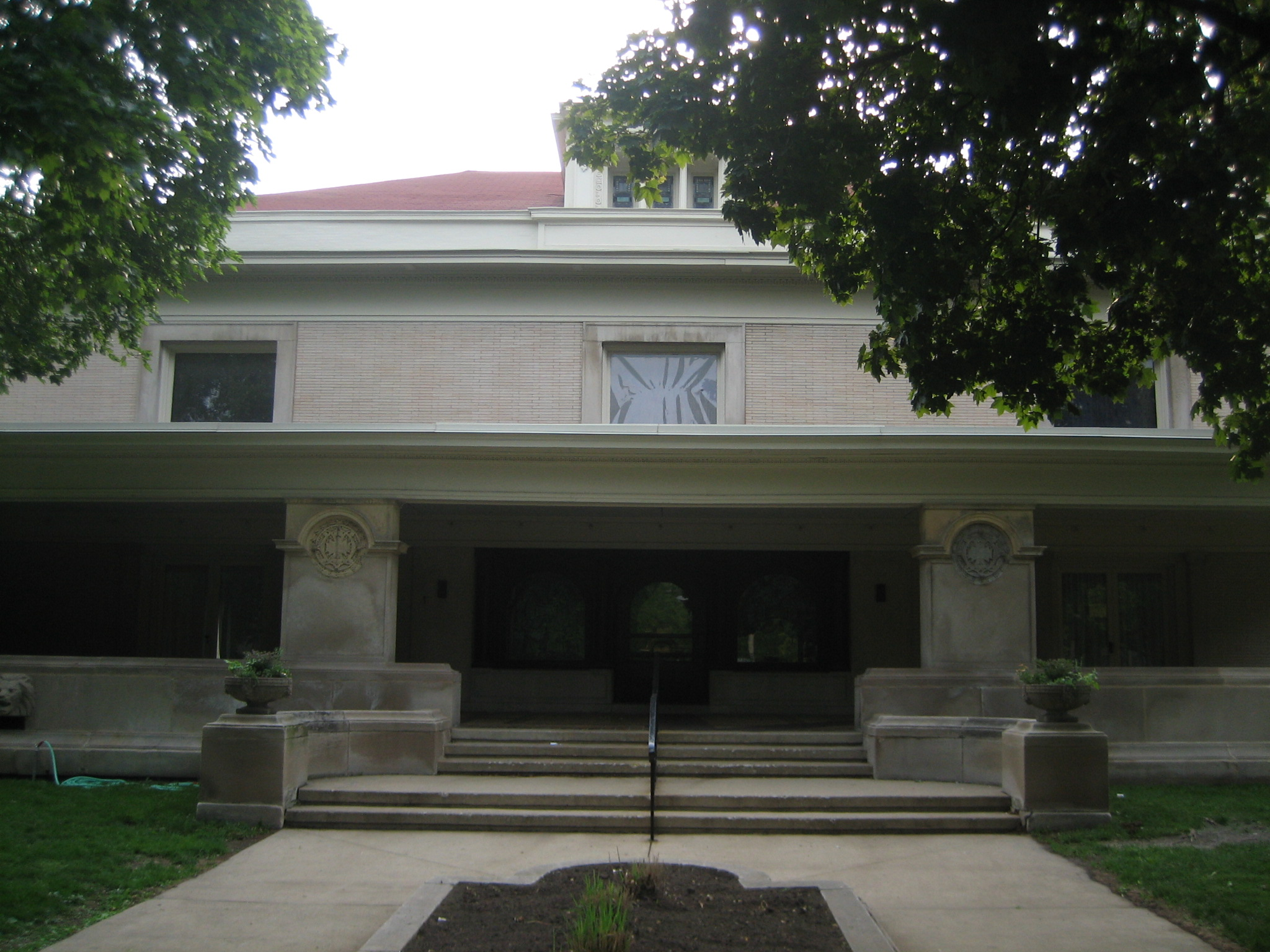 Pleasant Home, also known as the John Farson House, designed by George W. Maher 1897. Oak Park, Illinois, contributing property to the Oak Park-Ridgeland Historic District, as well as being a designated National Historic Landmark.